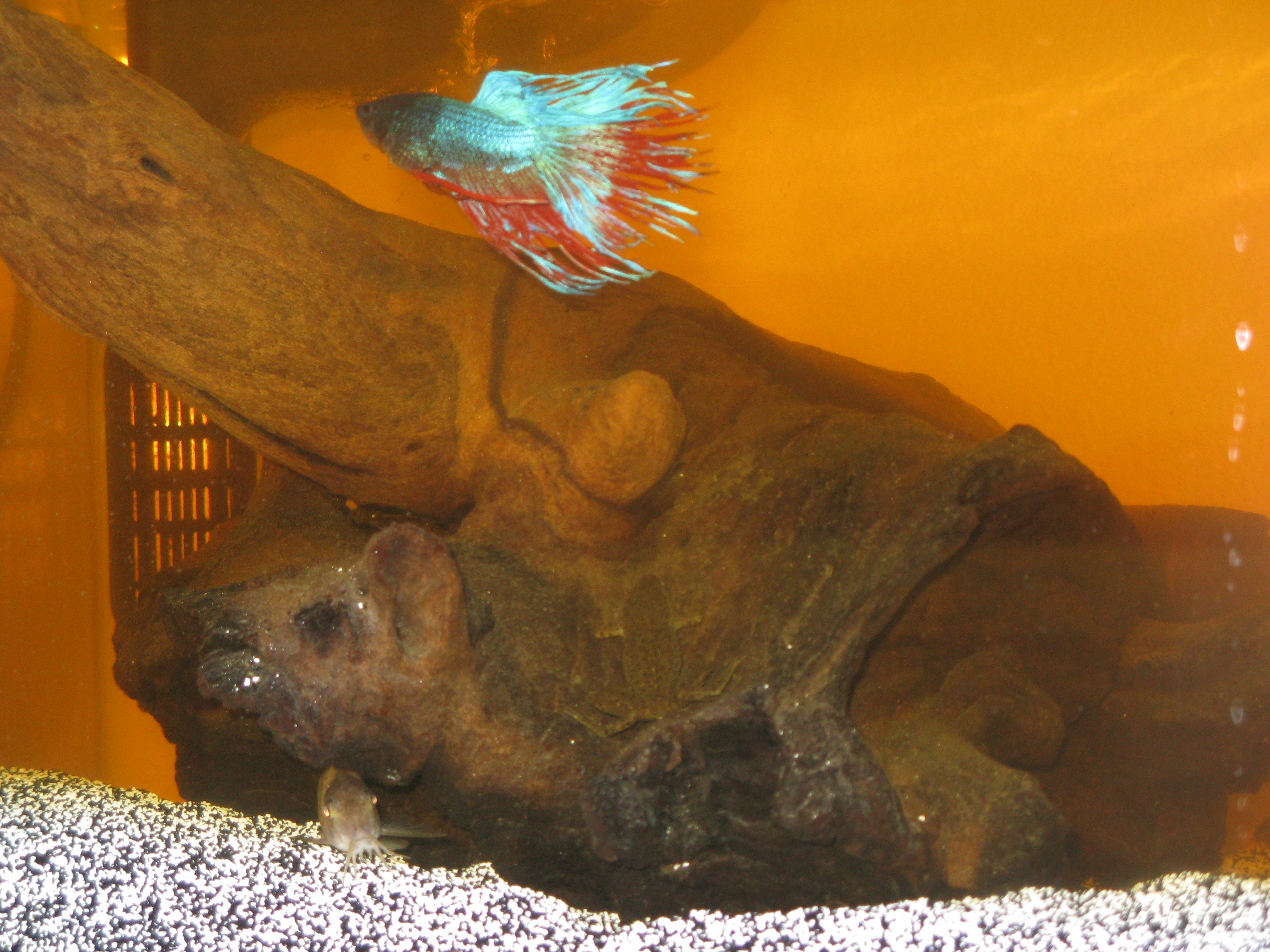 A male crown-tail betta splendens, a corydoras catfish (I can't remember the species), and an African dwarf frog around a piece of bogwood in an aquarium. The water is brown from tannins released from the bogwood.